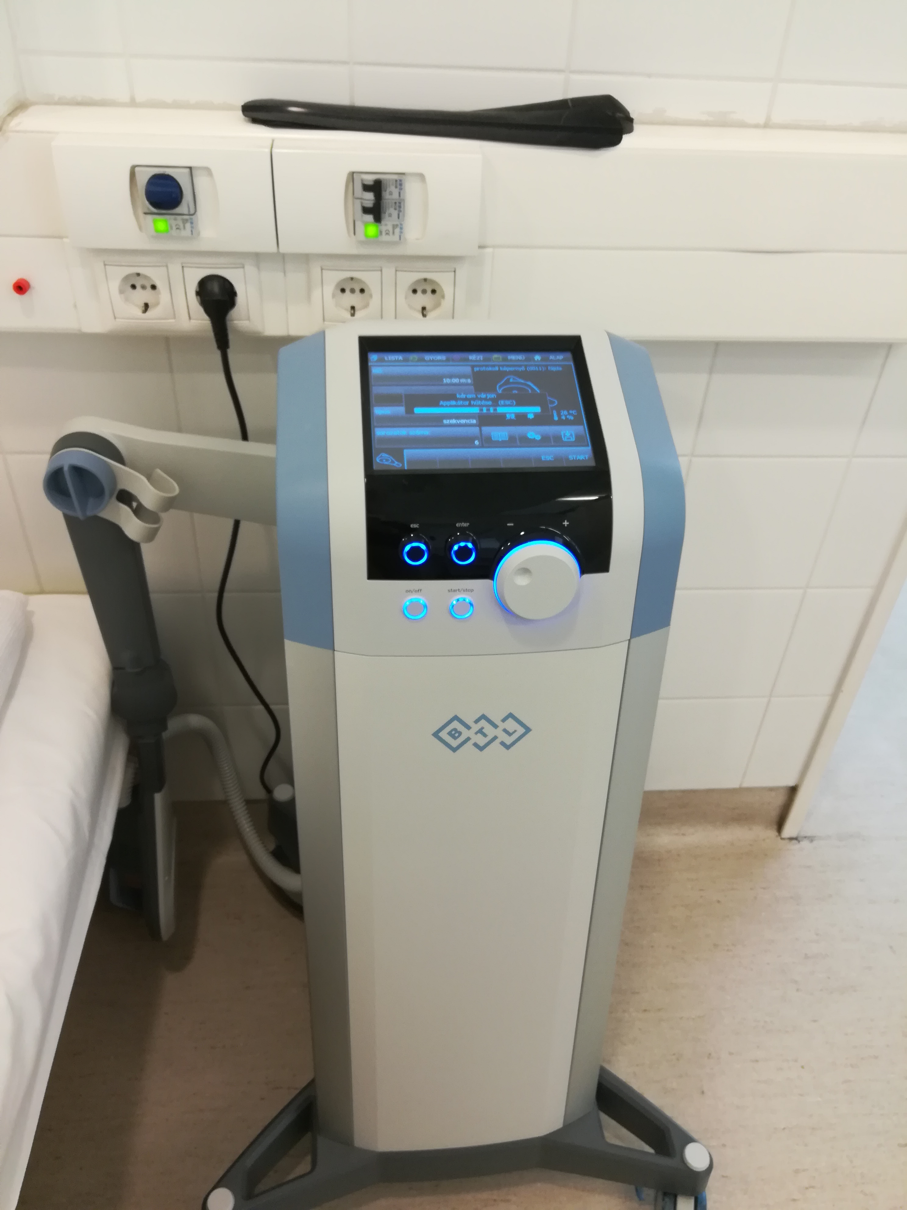 Magnetic stimulator for pain relief used in electromagnetic therapy. Location: Budapest, Hungary